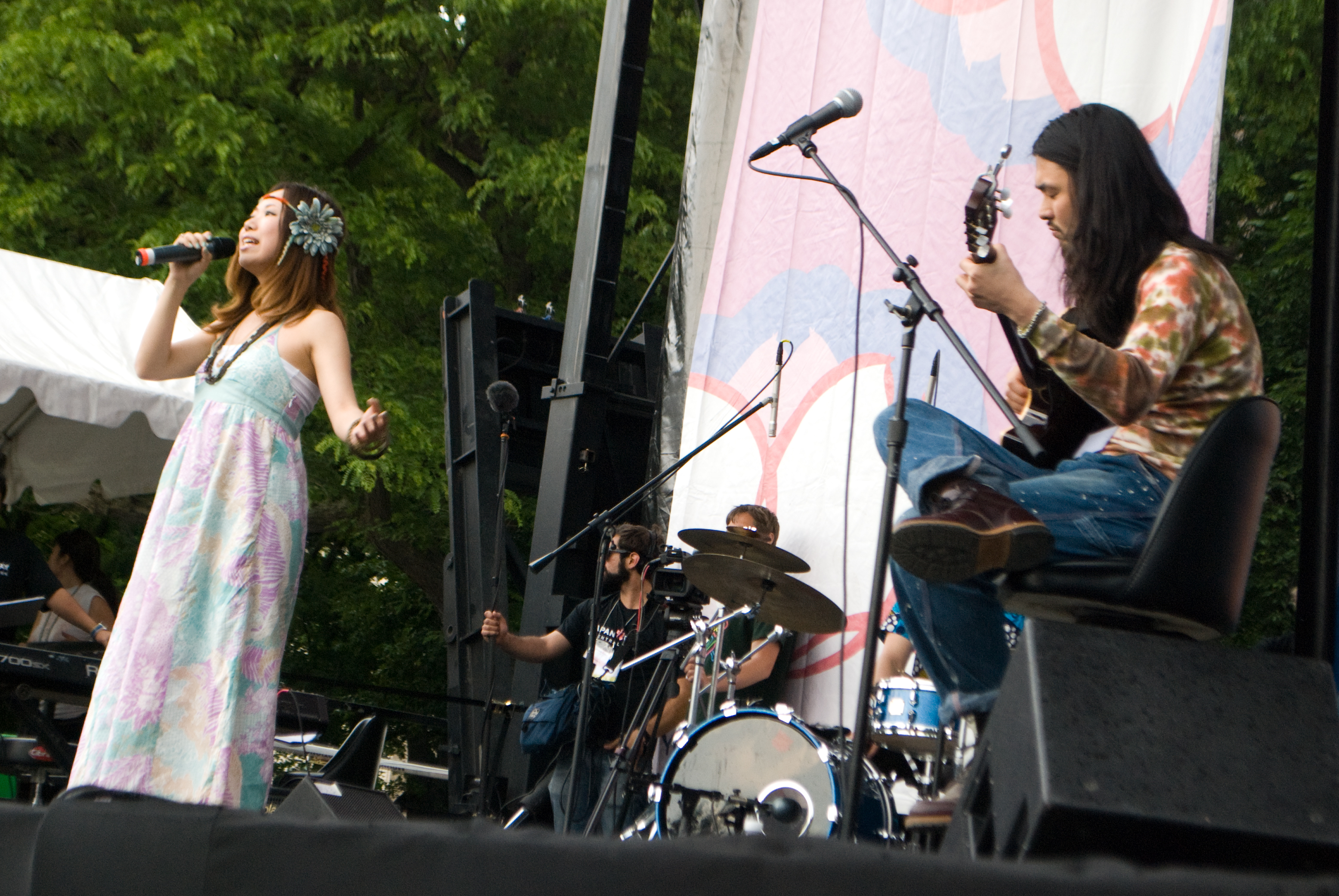 orange pekoe live at Japan Day in Central Park, New York City.